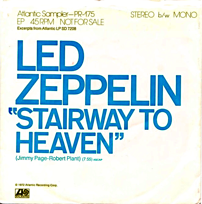 "Stairway to Heaven" by Led Zeppelin; US promotional material